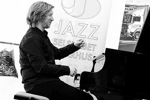 Helge Lien in Aarhus Denmark 2016